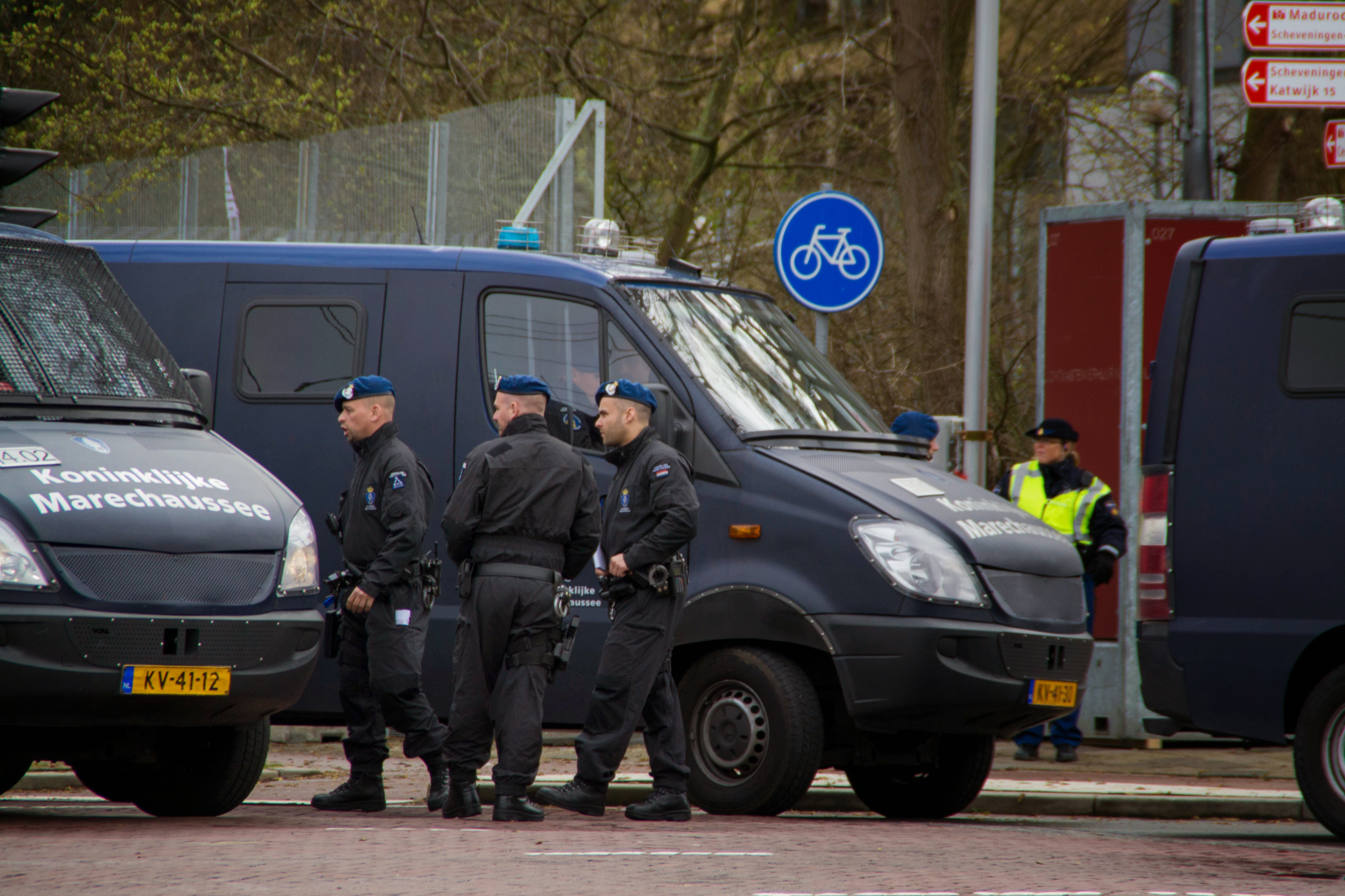 Royal Marechaussee at 2014 Nuclear Security Summit